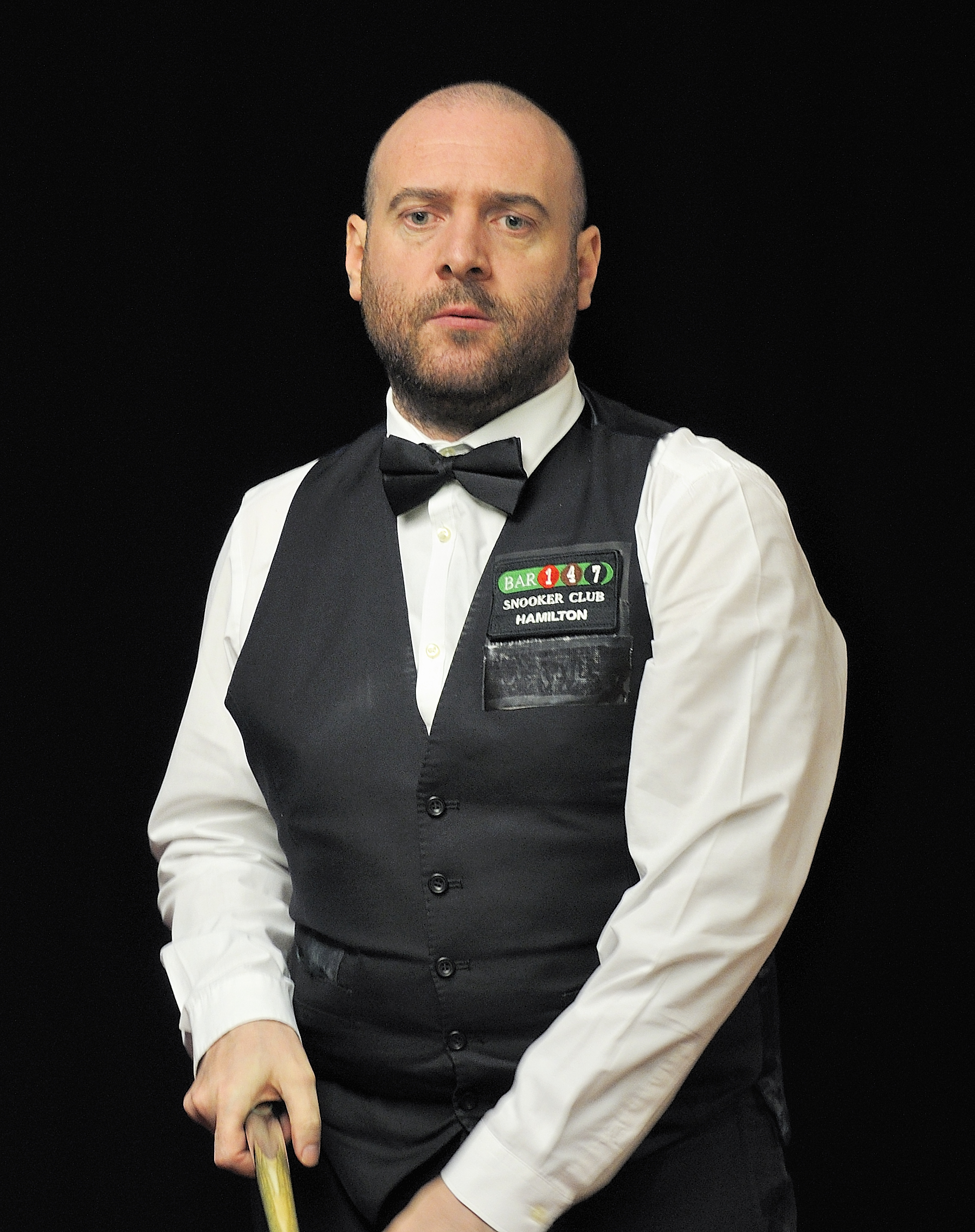 Picture taken in Berlin during the Snooker German Masters in 2014. Jamie Burnett.